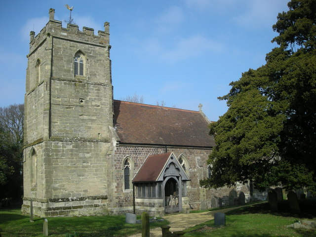 All Saints' parish church, Shawell, Leicestershire, seen from the south